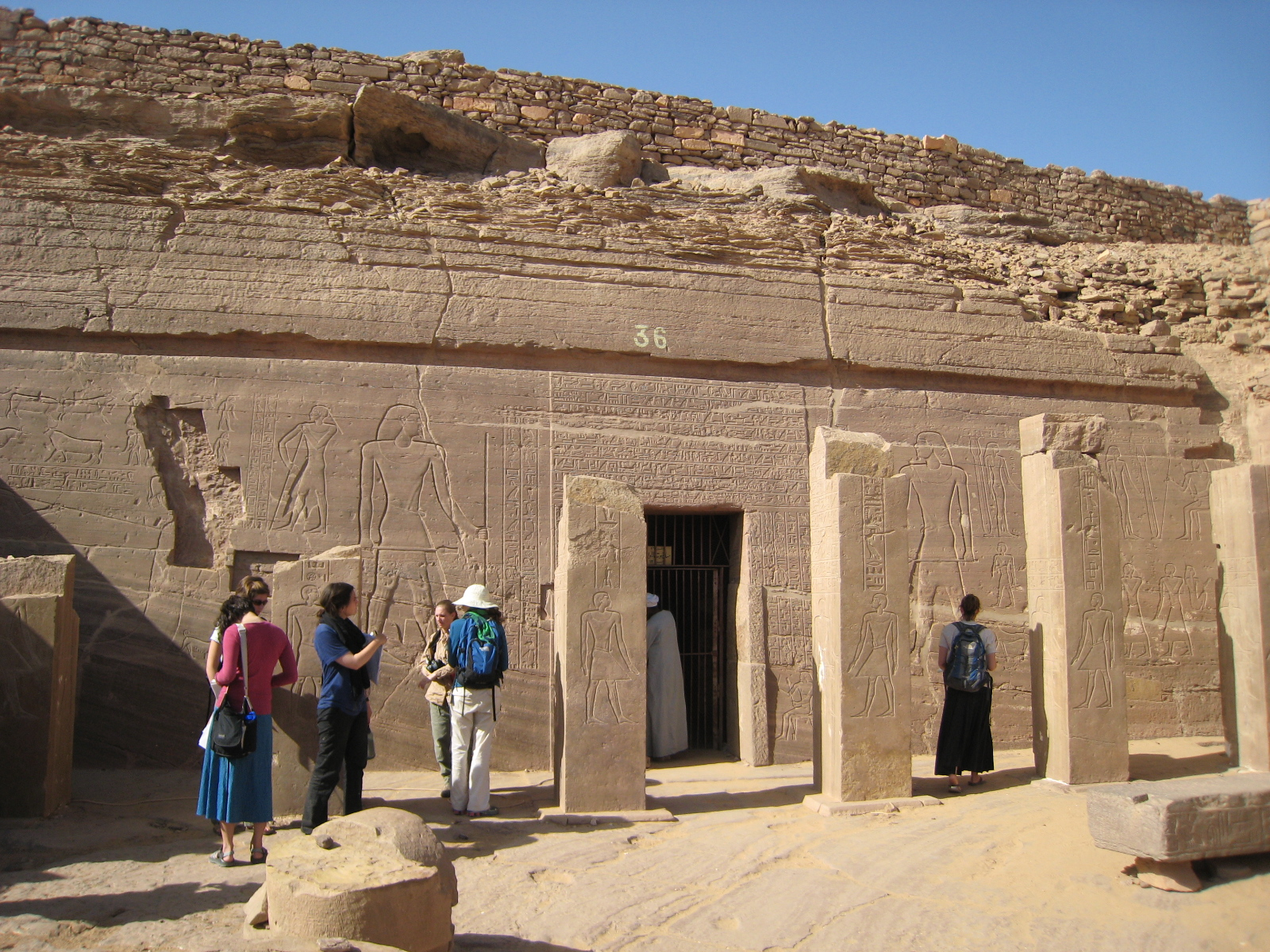 Qubbet el-Hawa IMG_6421